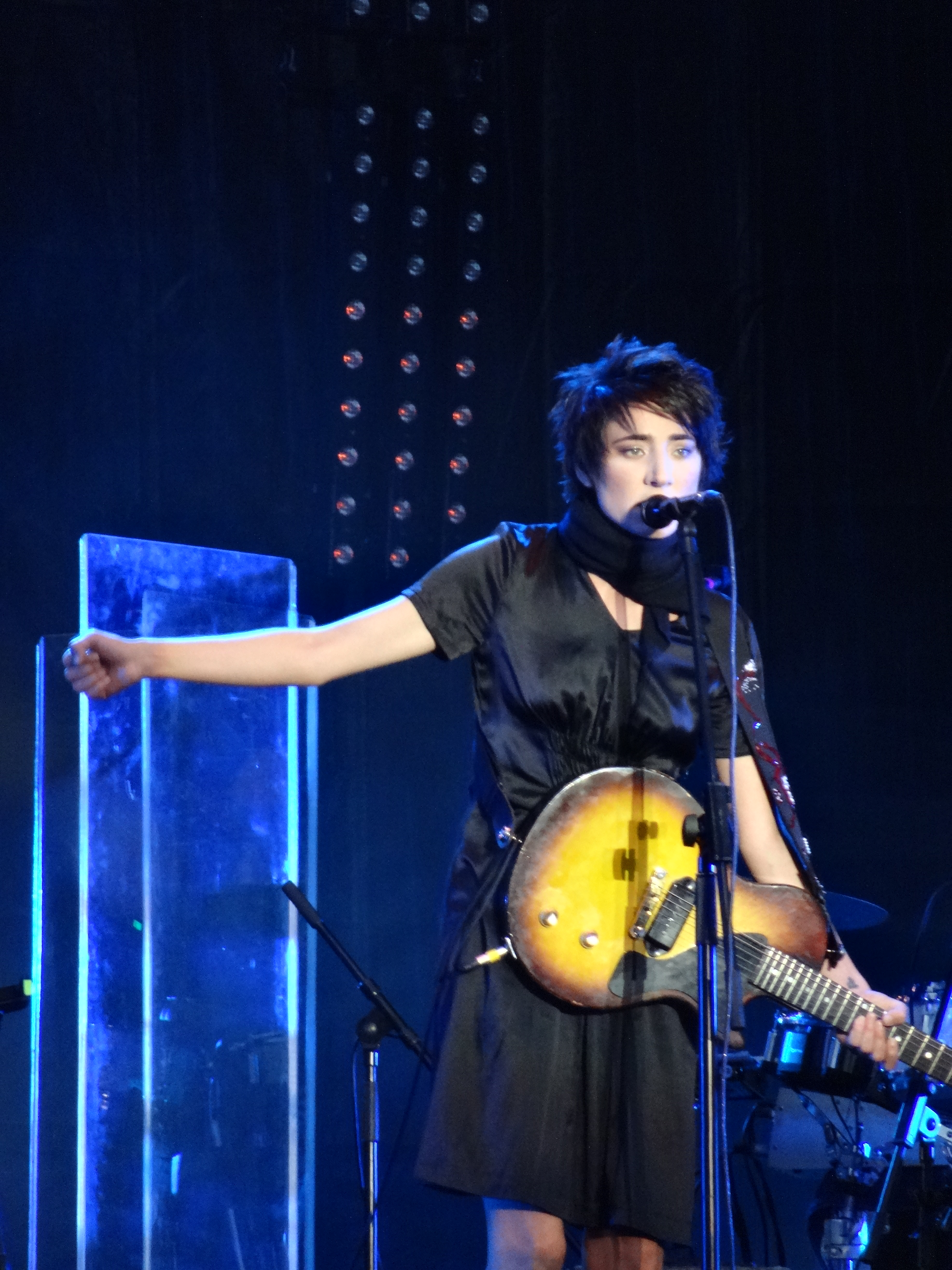 Zemfira @ Park Live Festival, VVC (All-Russia Exhibition Centre), Moscow, 30.06.2013